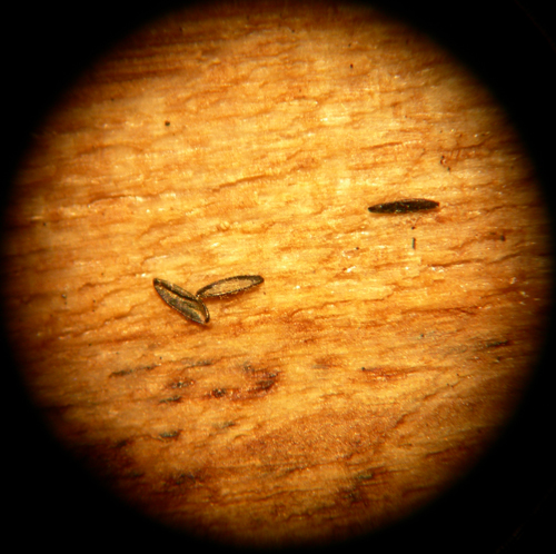 Dry eggs from the Asian tiger mosquito Aedes albopictus, found on the wooden paddle of an ovitrap. Immersing these eggs in water will rehydrate them and the larvae will soon hatch. Length of one egg ca 1/2mm.